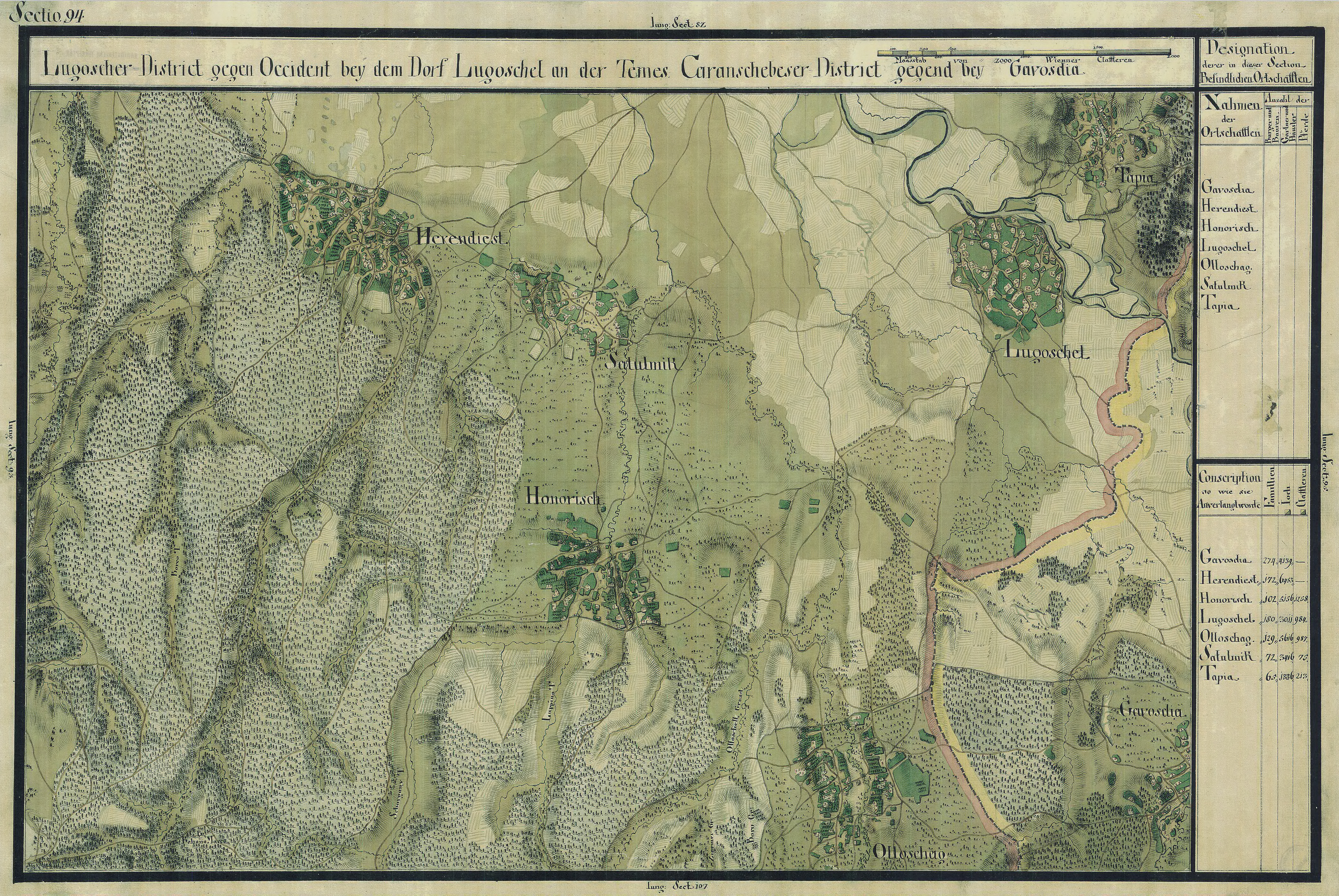 The Banat region in the cadastral maps: Josephinische Landesaufnahme, 1769-72. Josephinische Landaufnahme pg094